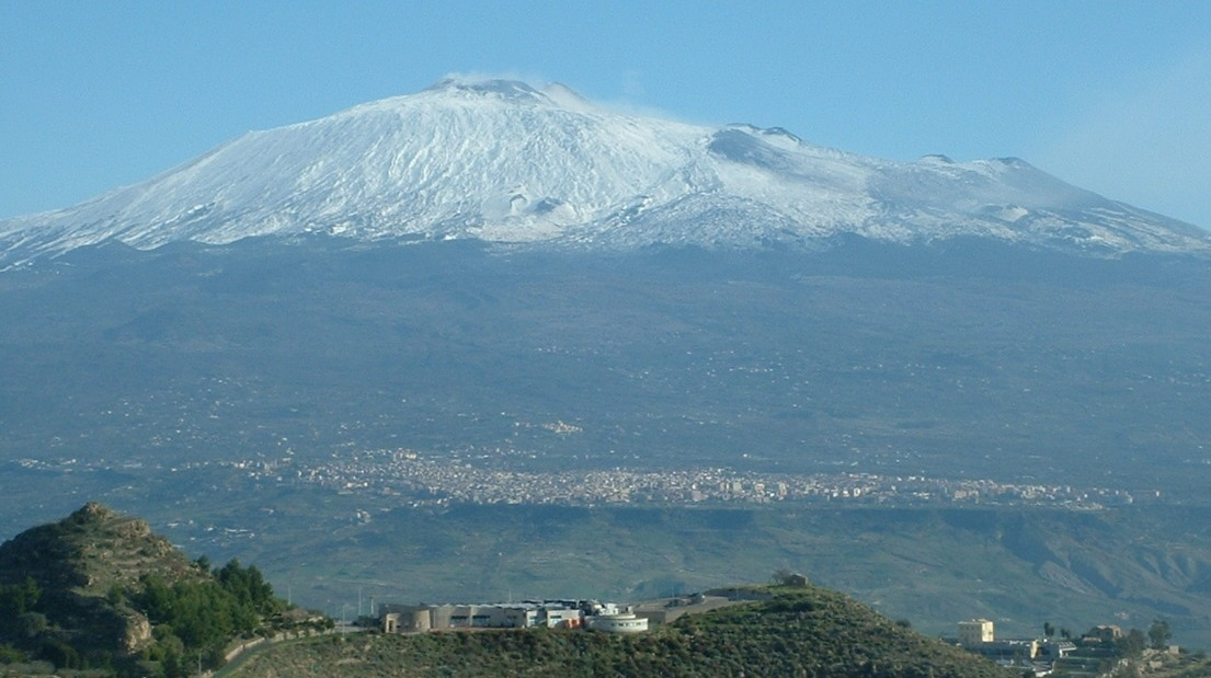 View of Adrano (CT) from Centuripe (EN)